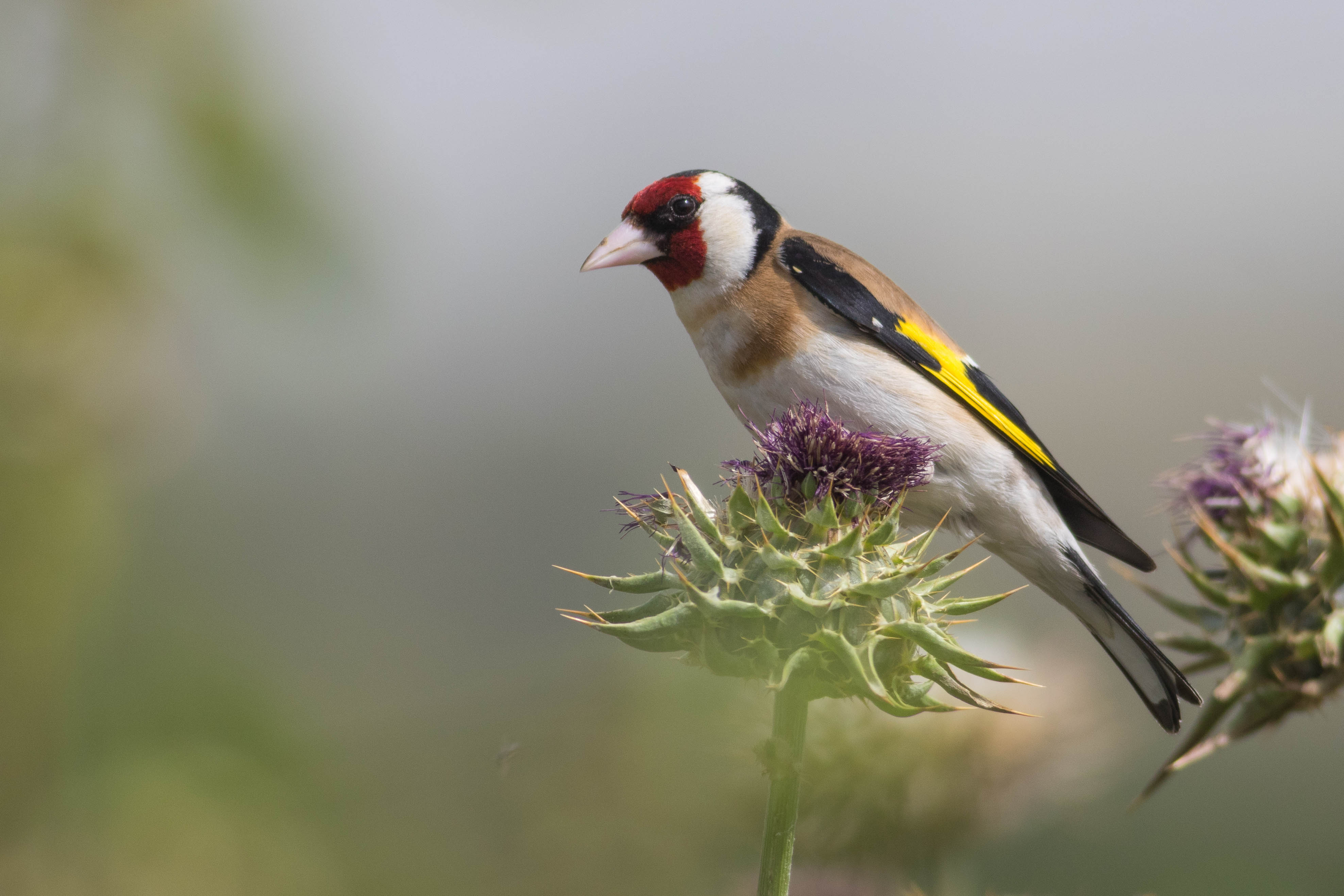 Carduelis carduelis (European goldfinch), Gamla nature reserve, Israel.